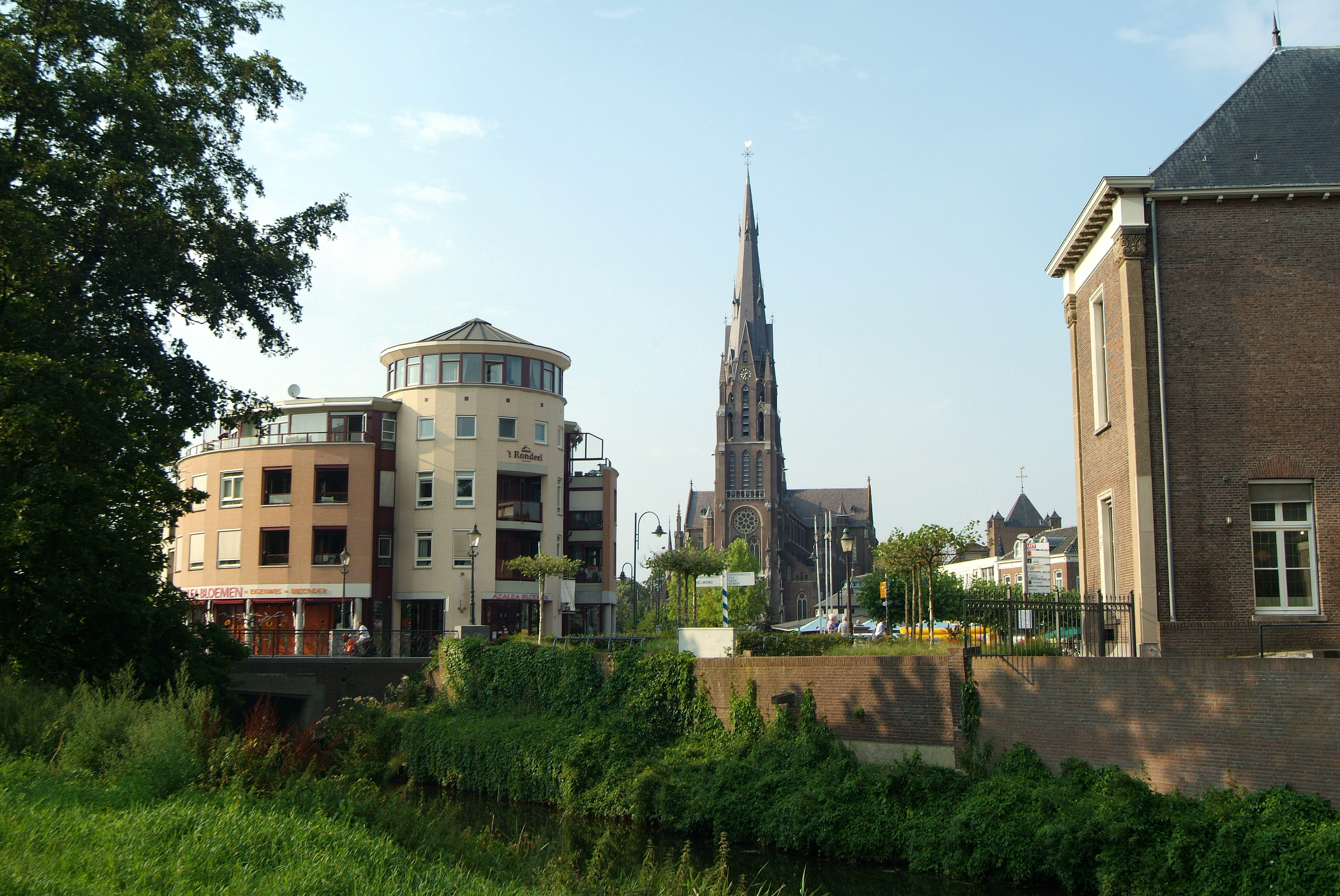 Veghel: Aa river in the front; Saint Lambert Church in the back; bridge over the river Aa on the left; old Town Hall on the right.